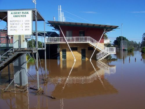 Lismore's clubhouse under water